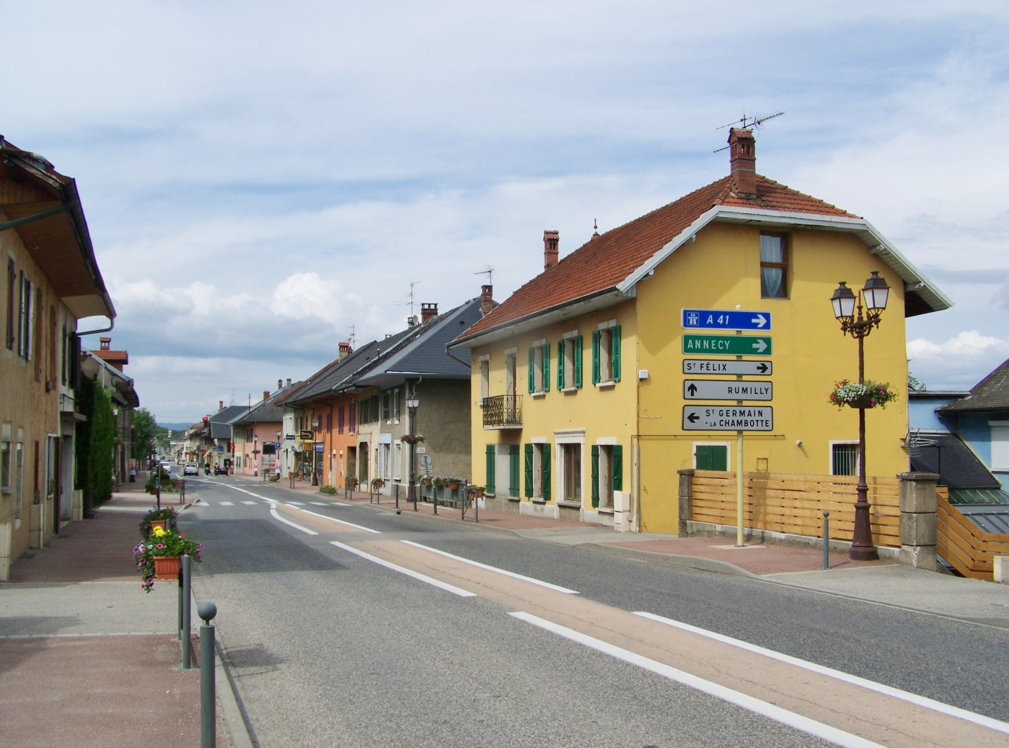 Main crossing road of the little commune of Albens in Savoie, France.